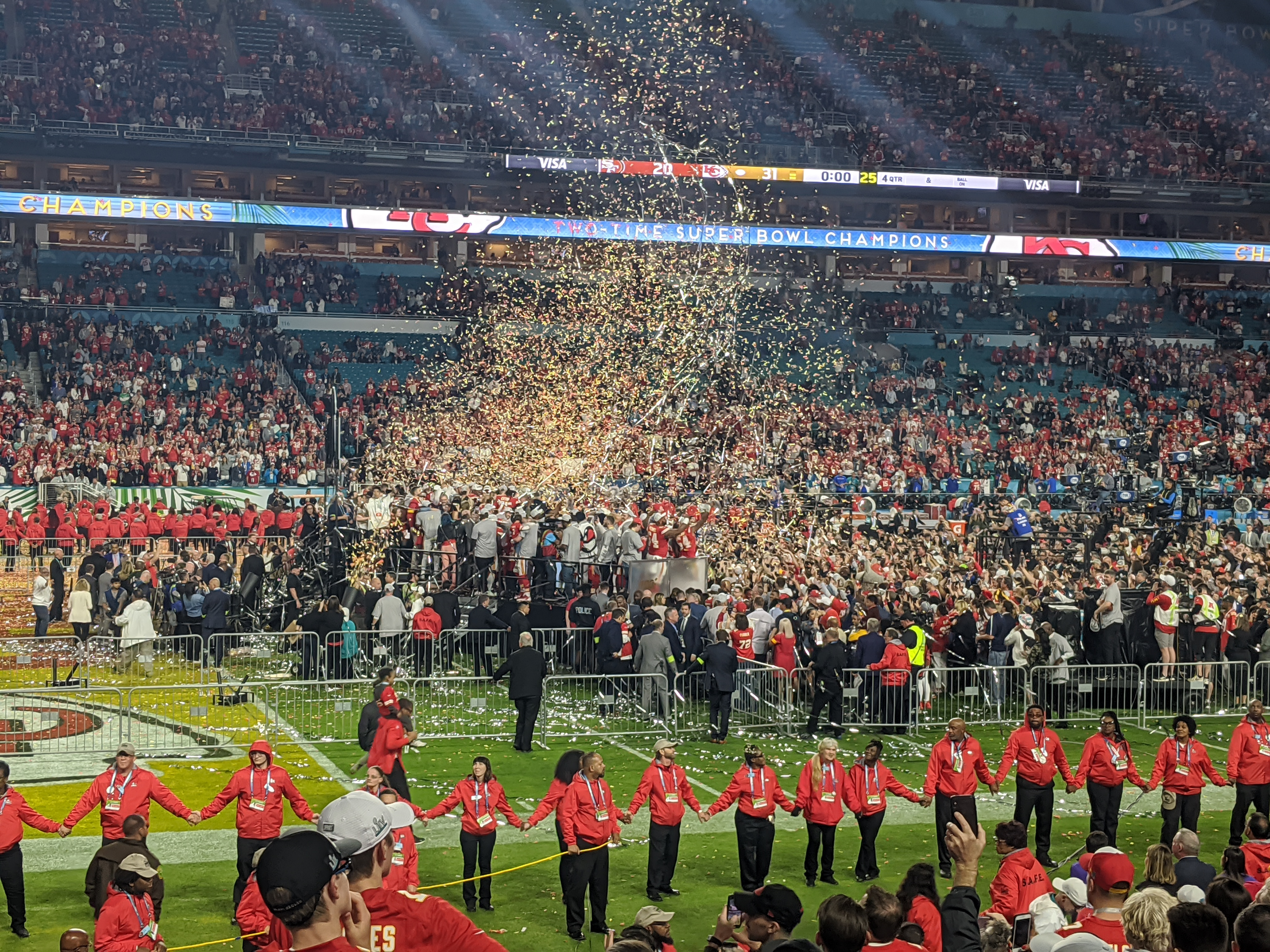 Post Game Celebration after the Chiefs won Super Bowl LIV